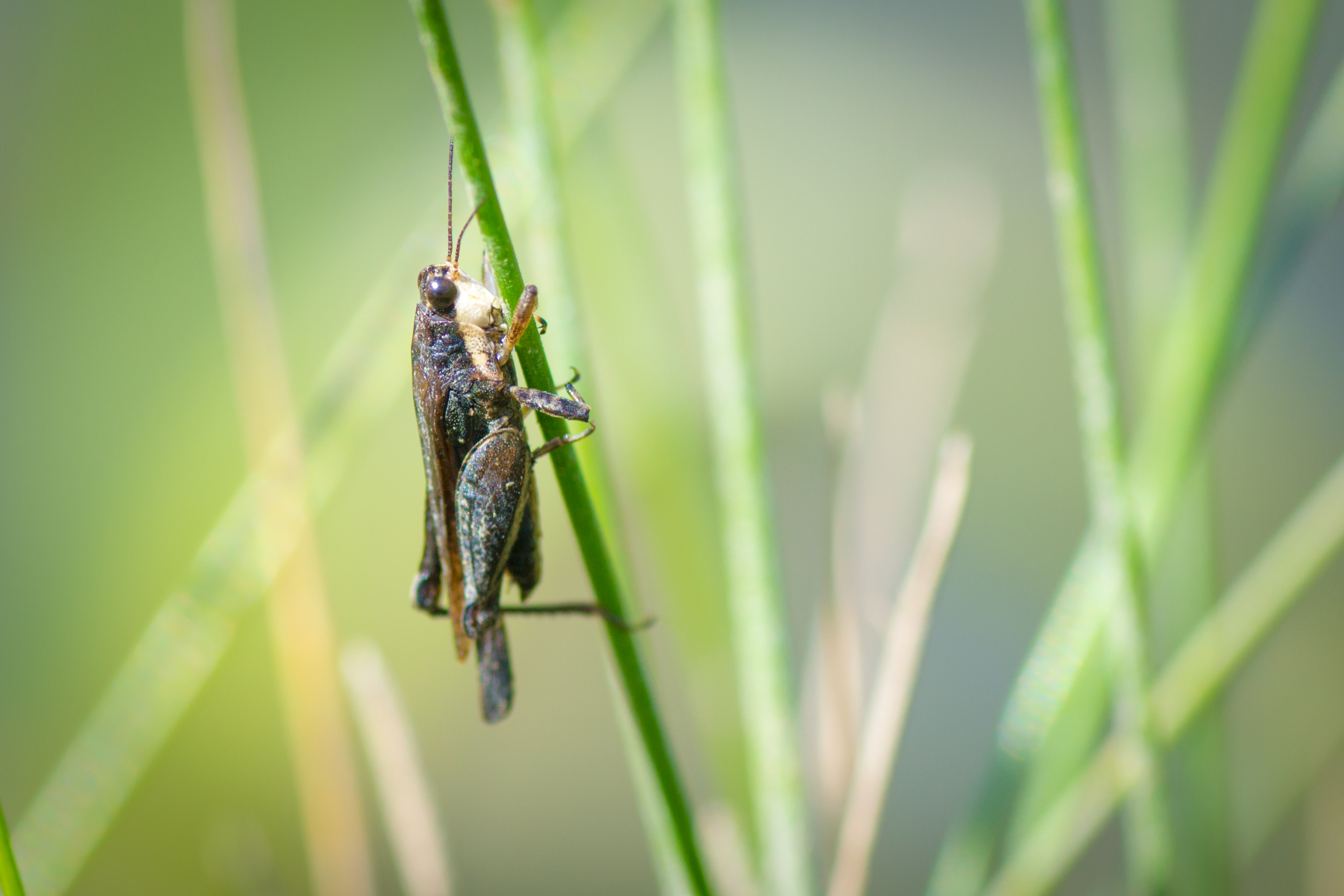 Ellis Lake Wetlands, Fairfield, Ohio